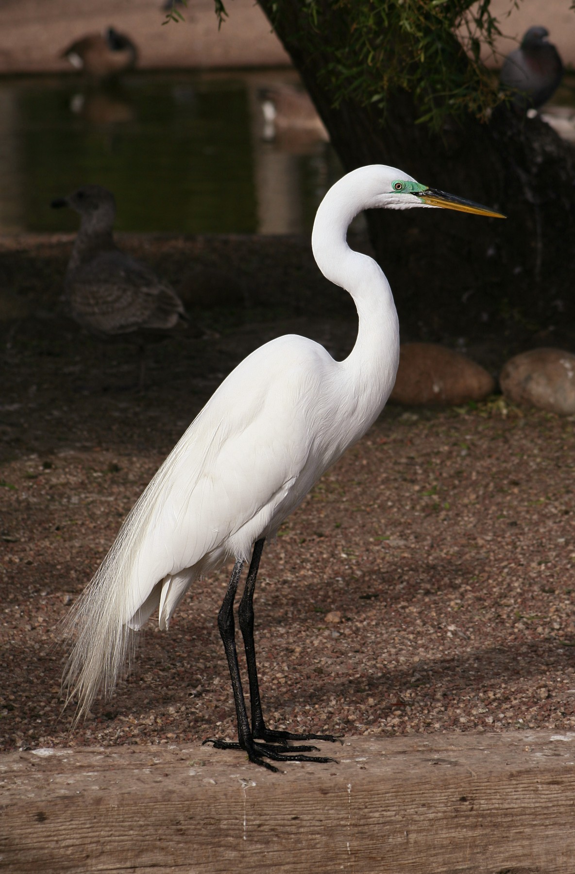 Great Egret (Ardea alba) taken at Lake Merritt in Oakland, CA USA.